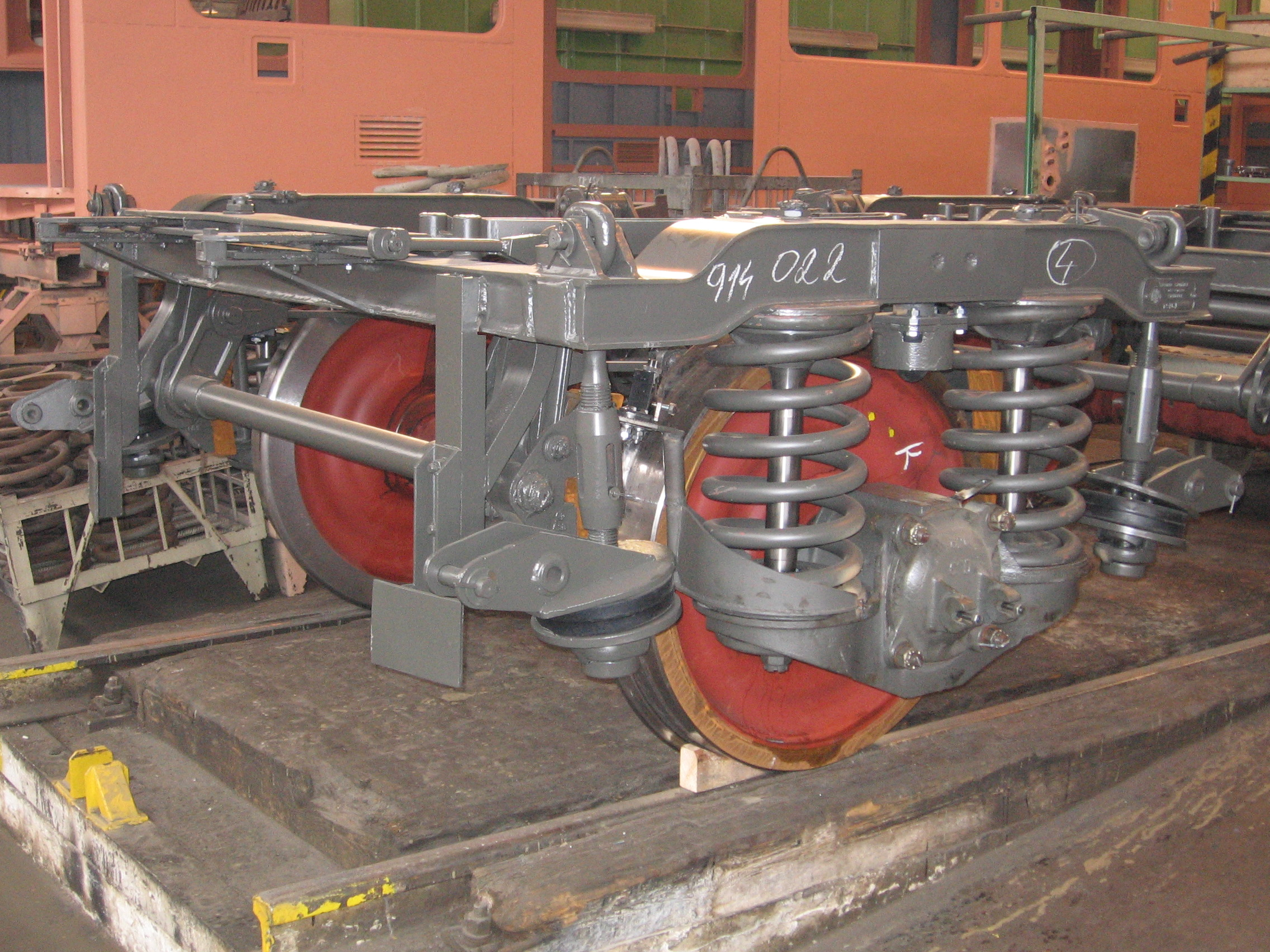 One axle bogie of ČD railbus class 810 or trailer 010 prepaired after overhaul for modernized unit 814-914